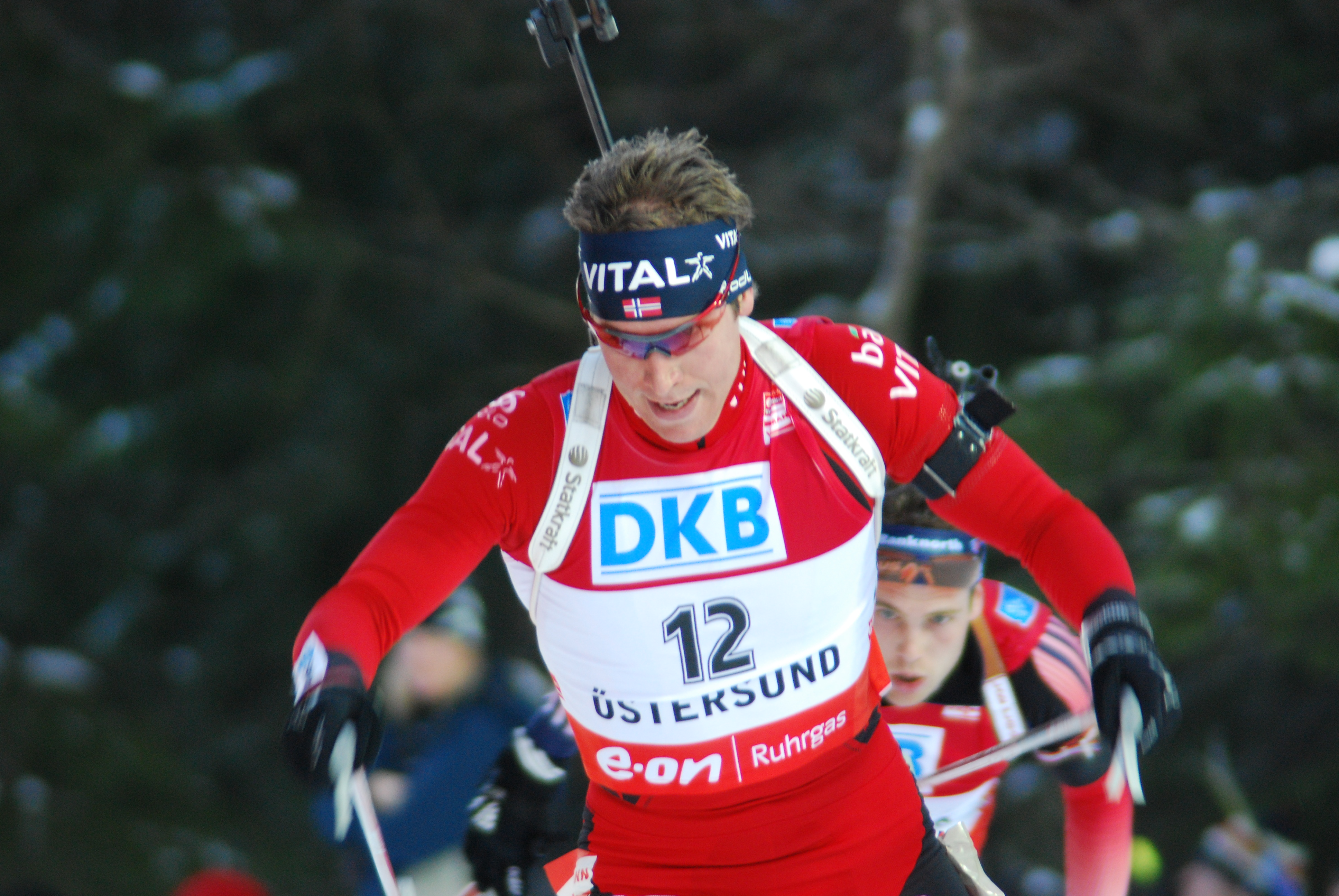 Norwegian biathlete Emil Hegle Svendsen during the World Championships in Östersund 2008.